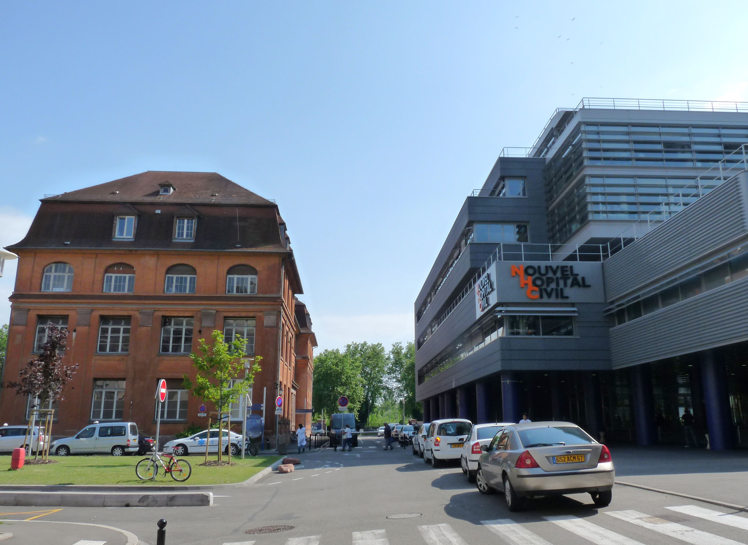 Old and new hospitals of Strasbourg